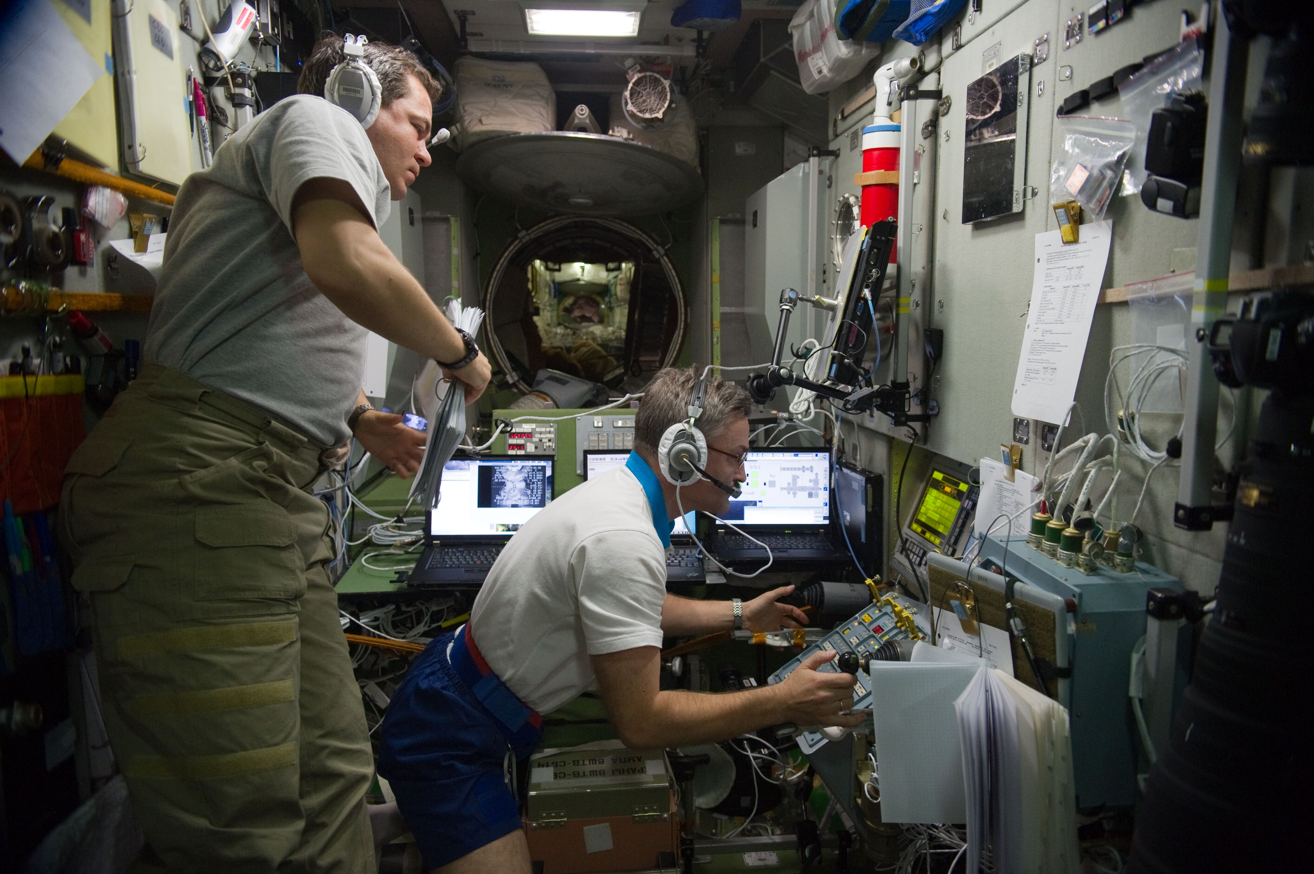 Russian cosmonauts Alexander Kaleri (right) and Oleg Skripochka, both Expedition 25 flight engineers, monitor data at the manual TORU docking system controls in the Zvezda Service Module of the International Space Station during the docking operations of the unpiloted ISS Progress 40 resupply vehicle. Progress 40 docked to the Pirs Docking Compartment at 12:36 p.m. (EDT) on Oct. 30, 2010, after Kaleri took over manual control to guide the Progress to its final connection.